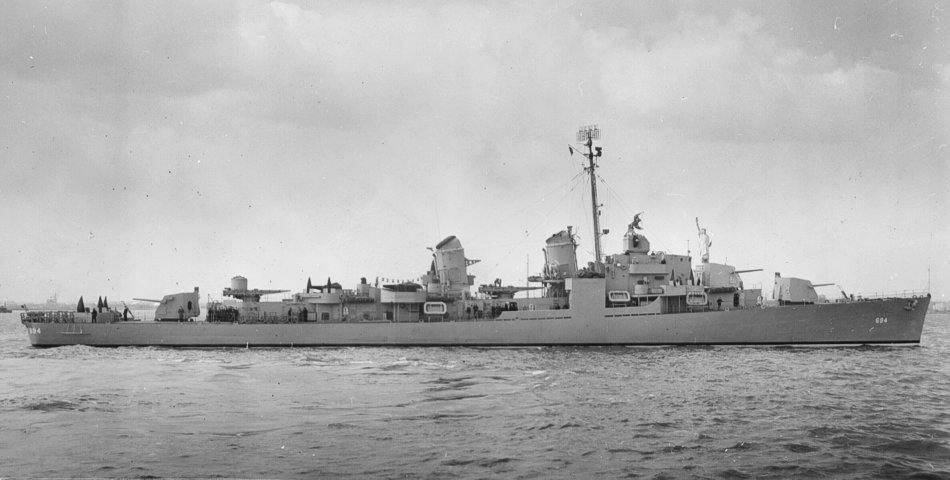 The U.S. Navy destroyer USS Ingraham (DD-694) following her delivery from the Federal Shipbuilding & Dry Dock Co., in New York Harbor with the Statue of Liberty visible in the background, on 9 March 1944.